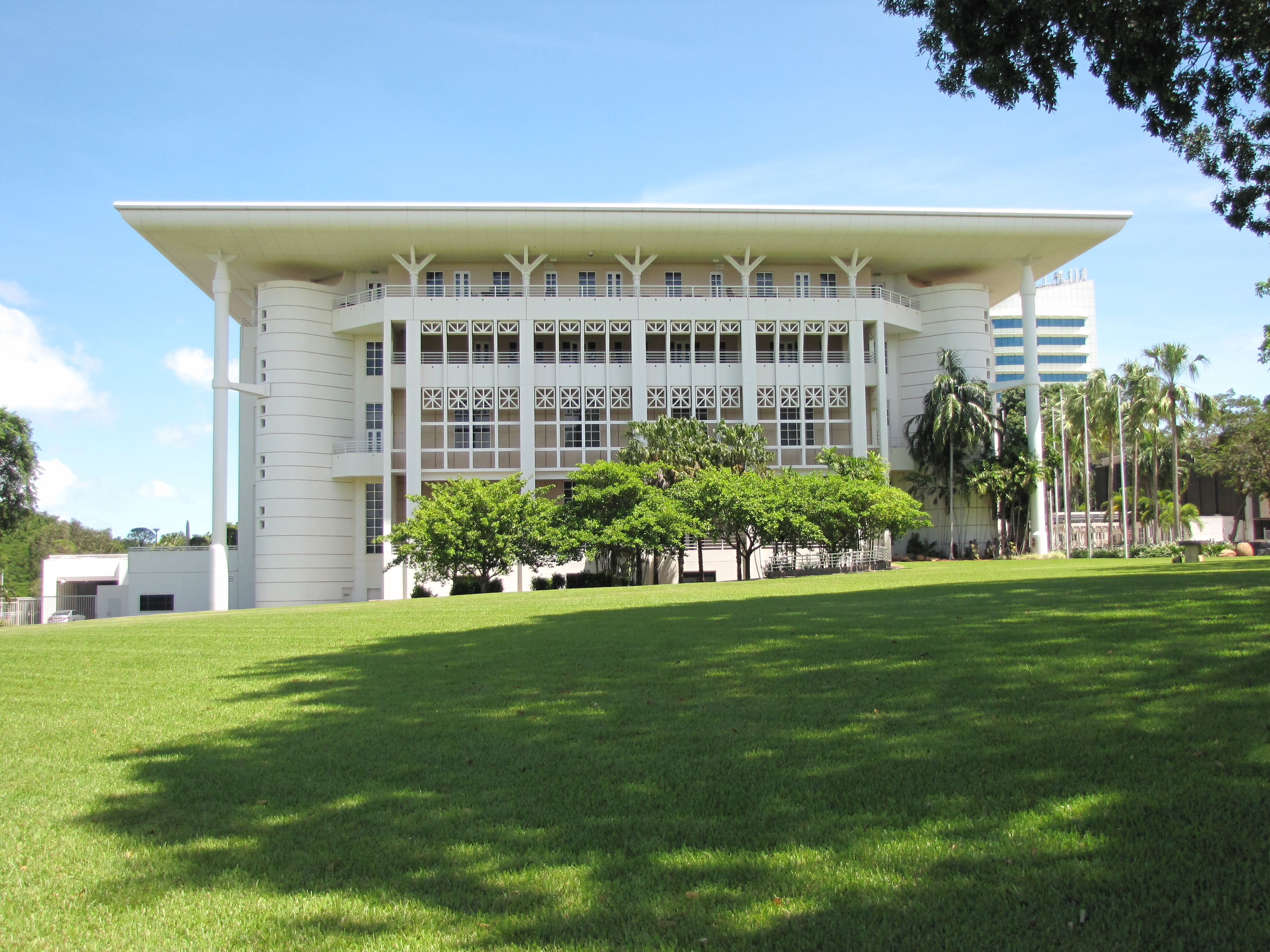 The Northern Territory Legislative Assembly building also known as "the Wedding Cake".